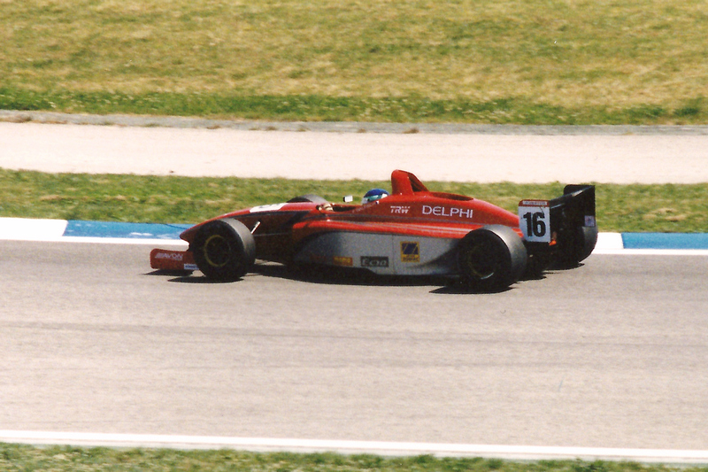 Fabrice Walfisch at the old Europcar corner during the F3000 event at the Circuit de Catalunya. Photo taken with a Canon EOS Rebel XS using Kodak Ektar 1000 film.